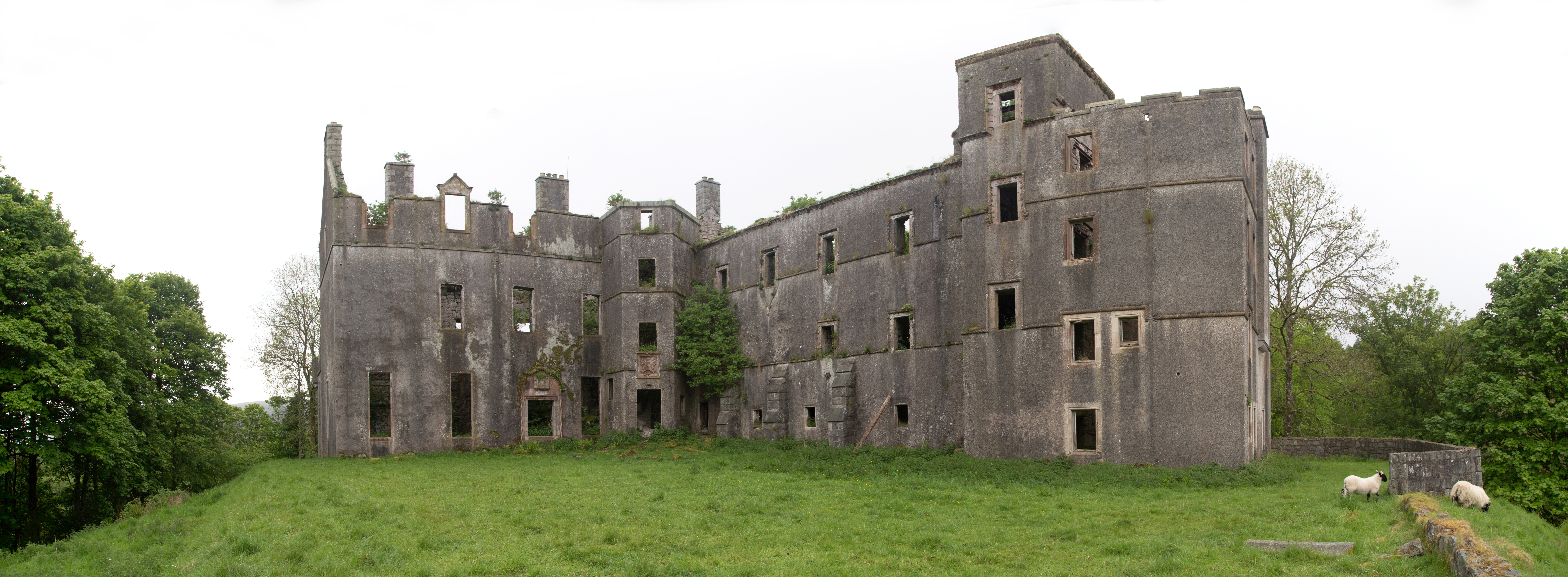 Kenmure Castle Wikidata has entry Q16893264 with data related to this item.